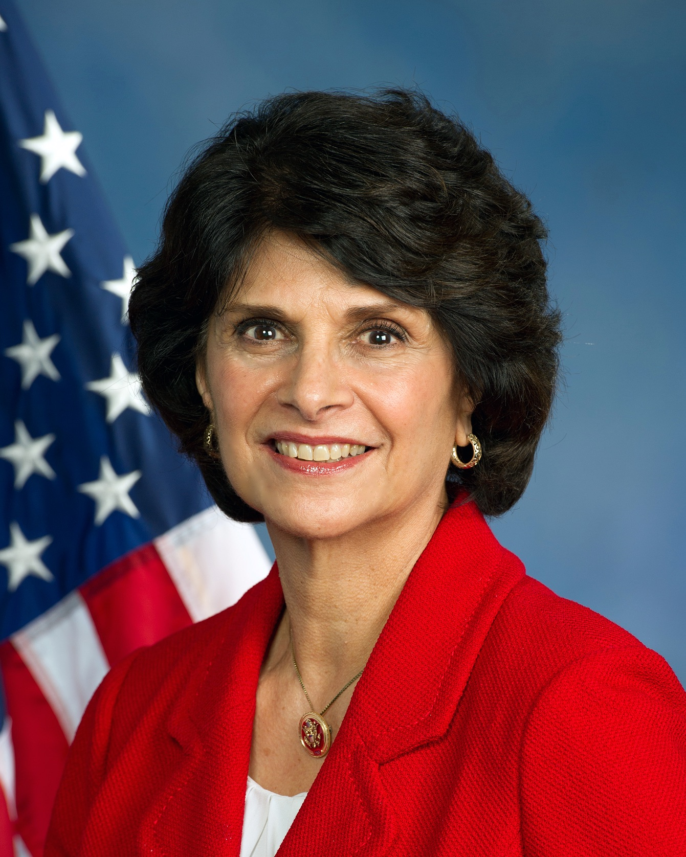 Lucille Roybal-Allard, member of the United States Congress.